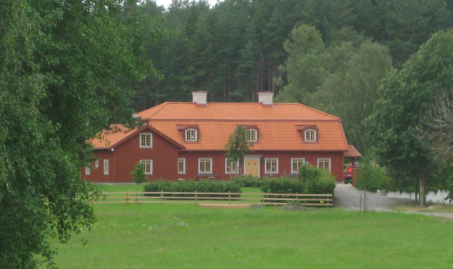 Övre Torp, home of former swedish prime minister Göran Persson